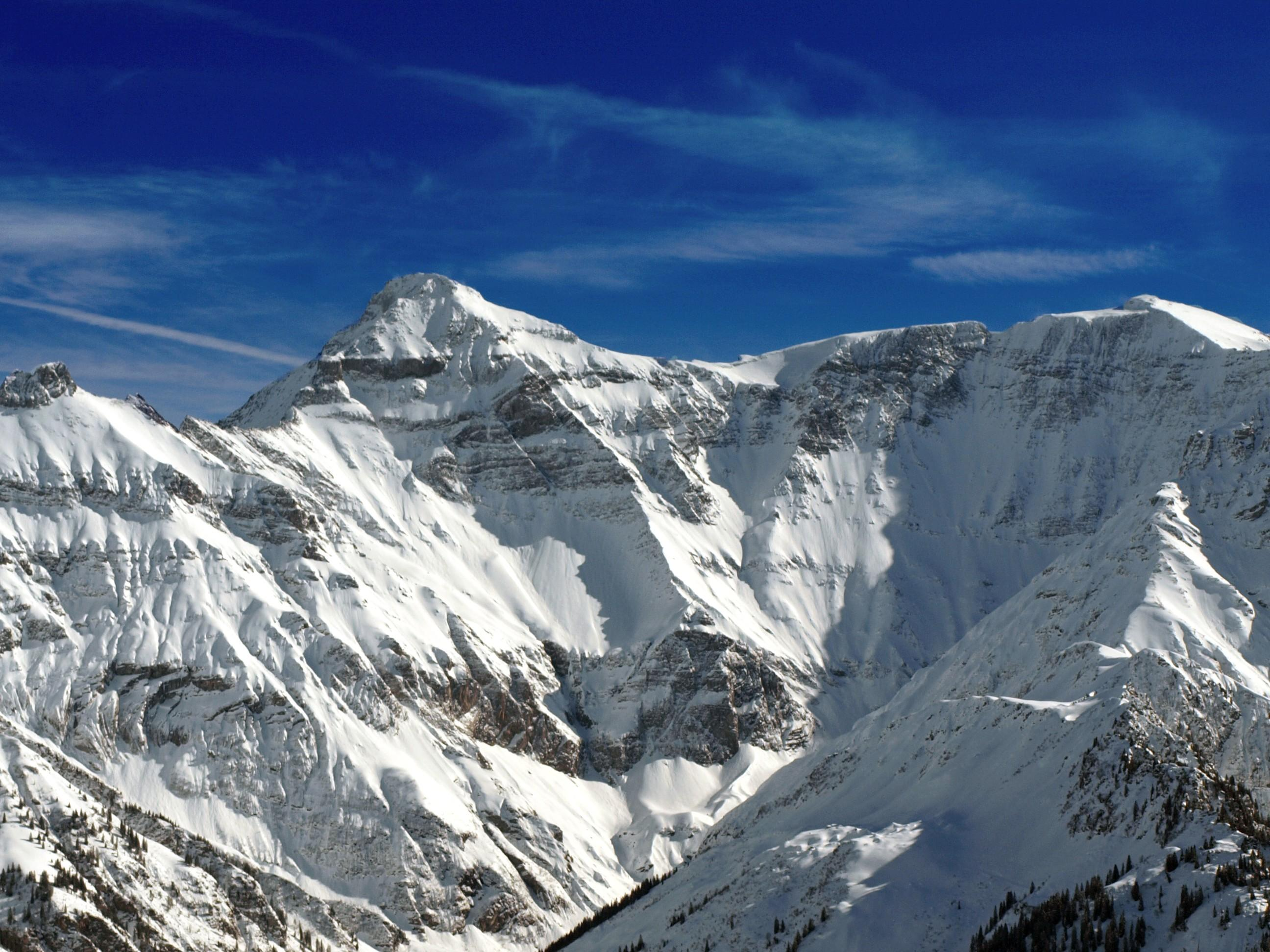 From the north-west side.